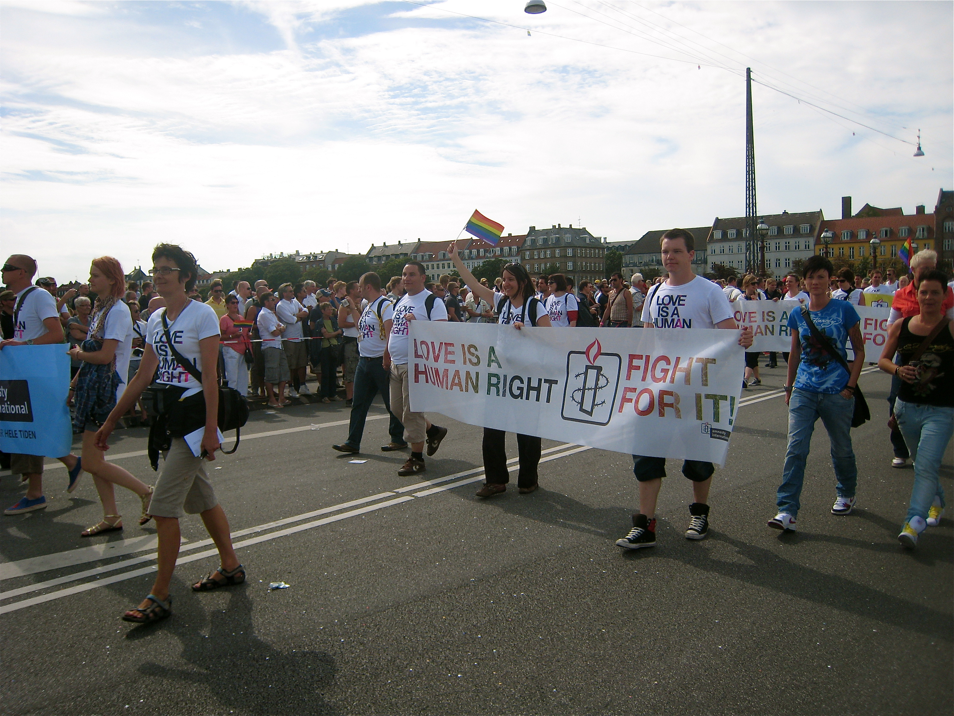 Amnesty group at Copenhagen Pride 2009.